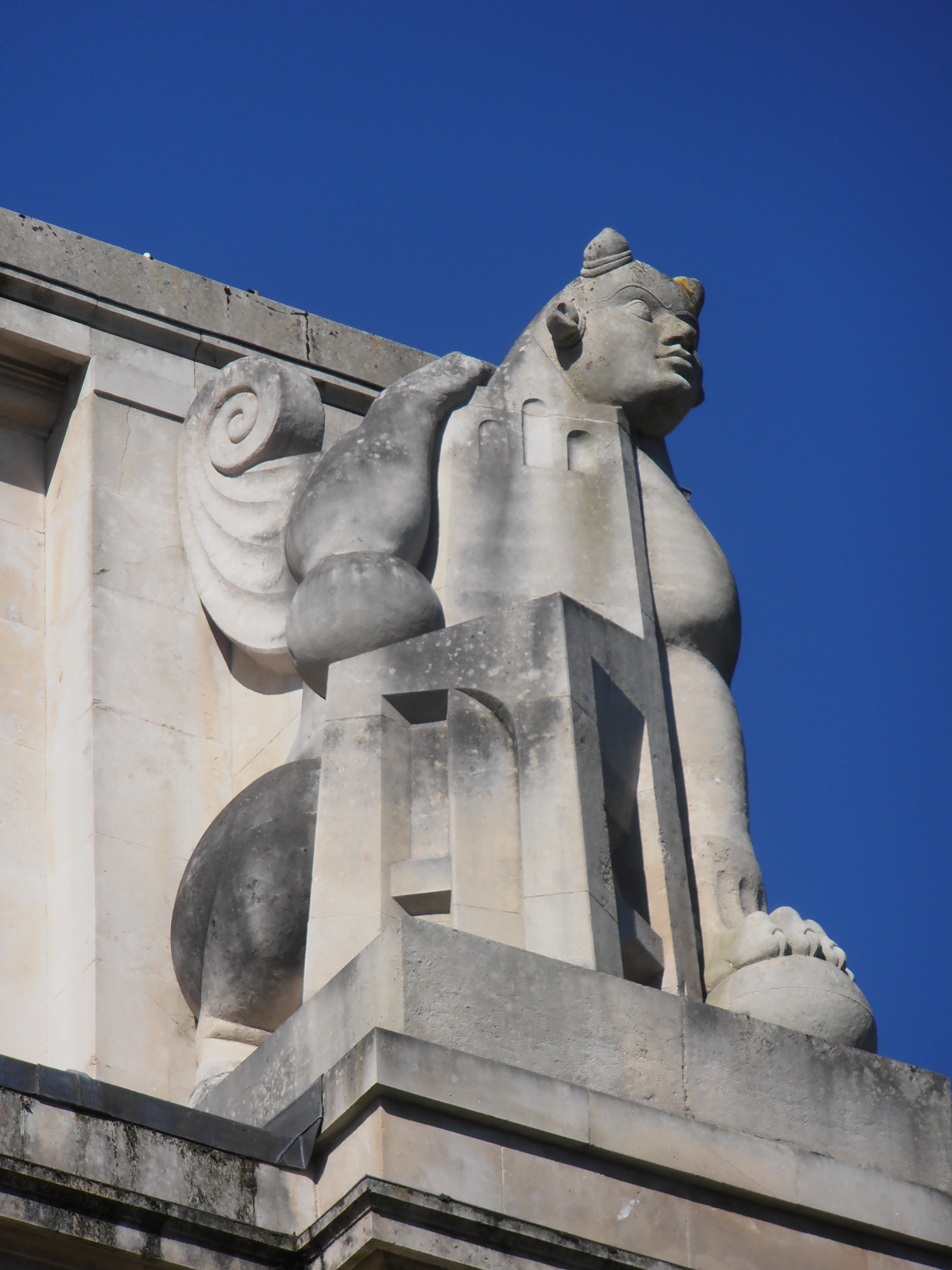 Regarding Guardians of Art (1984) by Dhruva Mistry. Architectural sculpture at National Museum Cardiff.